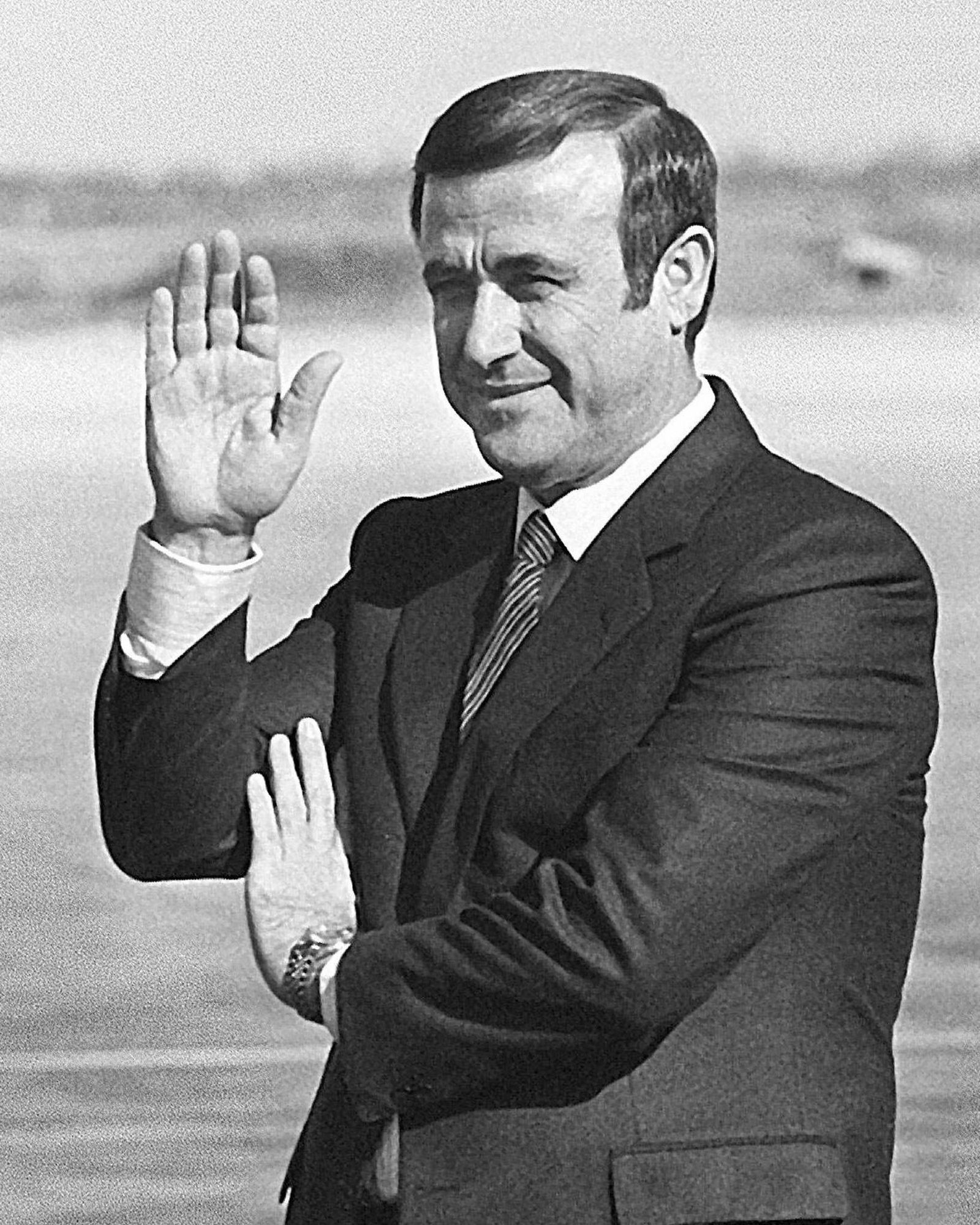 Rifaat al-Assad, commander of the Defense Corps in the 1980s.